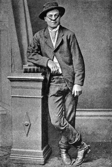 Photograph of Aaron Sherritt.